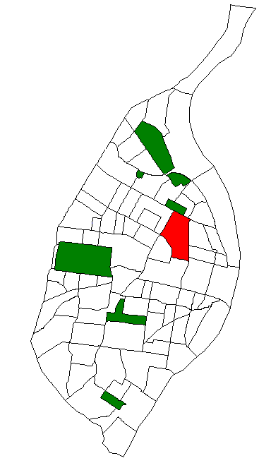 Map of St. Louis Neighborhood #59